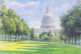 Wahbi Al-Hariri's Painting of the Natl Capital